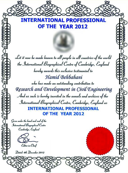 International Biographical Centre Certificate belongs to Hamid Behbahani